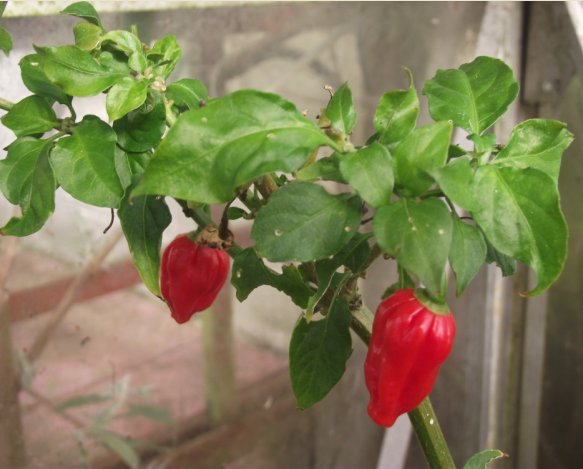 Image of author's plant taken in author's Christchurch, Dorset greenhouse.